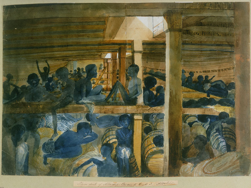 This image is from a sketchbook of watercolours depicting places visited by Francis Meynell while on a Royal Navy anti-slavery patrol off the west coast of Africa and includes several ship portraits. This is one of two watercolours, the other being MEY/2.1, which show slaves above and below deck. They were painted on board the ‘Albanoz’, a captured Spanish slave ship in 1846, so the people shown had in fact been liberated though not yet landed and released. They nevertheless provide a rare eyewitness view of conditions in the hold of a slave ship. Those shown are not chained - and there are no signs of chains- but rather imprisoned in a confined space. During the Middle Passage, the enslaved were usually not kept constantly below deck, unless the weather was particularly bad or there was a serious threat of revolt on board. In order that as many Africans should reach the Americas with some of their health intact, they were allowed out of the fetid holds and to exercise on deck. Meynell served as mate on the Penelope during anti-slavery operations off the west coast of Africa, he went on to be promoted Lieutenant in 1846 to the Penelope.